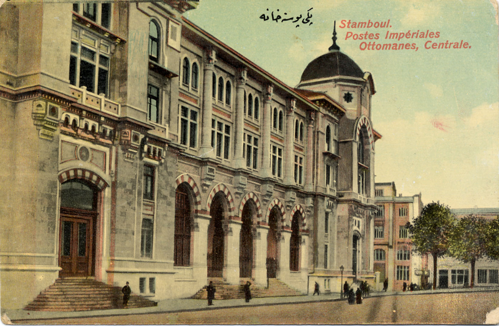 Construction of the Grand Post Office in Sirkeci began in 1905, and it opened in 1909 as the Post and Telegraph Ministry. The building was designed by Vedad Tek, a major architect of First Nationalist Architecture, who adapted forms of classical Ottoman architecture to the international rules of Beaux-Arts. Named the New Post Office in the 1930s the building hosted the İstanbul Radio between 1927-1936. It was only in 1958 that it started to be used solely for post and telegraph services. Now known as Grand Post Office the building remains the largest post office in Turkey and accommodates the PTT İstanbul Regional Head Directorate. SALT Research, Photograph Archive Yapımına 1905’te başlanan Sirkeci’deki Büyük Postane binası, 1909’da Posta ve Telgraf Nezareti olarak açıldı. Bina, klasik Osmanlı biçimlerinin Beaux-Arts mimari kurallarına uyarlanması temelinde, Birinci Ulusal Akımı’nın önde gelen mimarlarından Vedad Tek tarafından tasarlandı. 1930’larda Yeni Postane olarak anılan bina, 1927-1936 yıllarında İstanbul Radyoevi’ne ev sahipliği yaptı. 1958’den sonra ise sadece posta ve telgraf hizmetlerinde kullanılmaya başlandı. Türkiye’nin en büyük postanesi olan bina, günümüzde Sirkeci Postanesi, Telgraf Başmüdürlüğü ve İstanbul Avrupa Yakası PTT Başmüdürlüğü olarak hizmet vermektedir. SALT Araştırma, Fotoğraf Arşivi